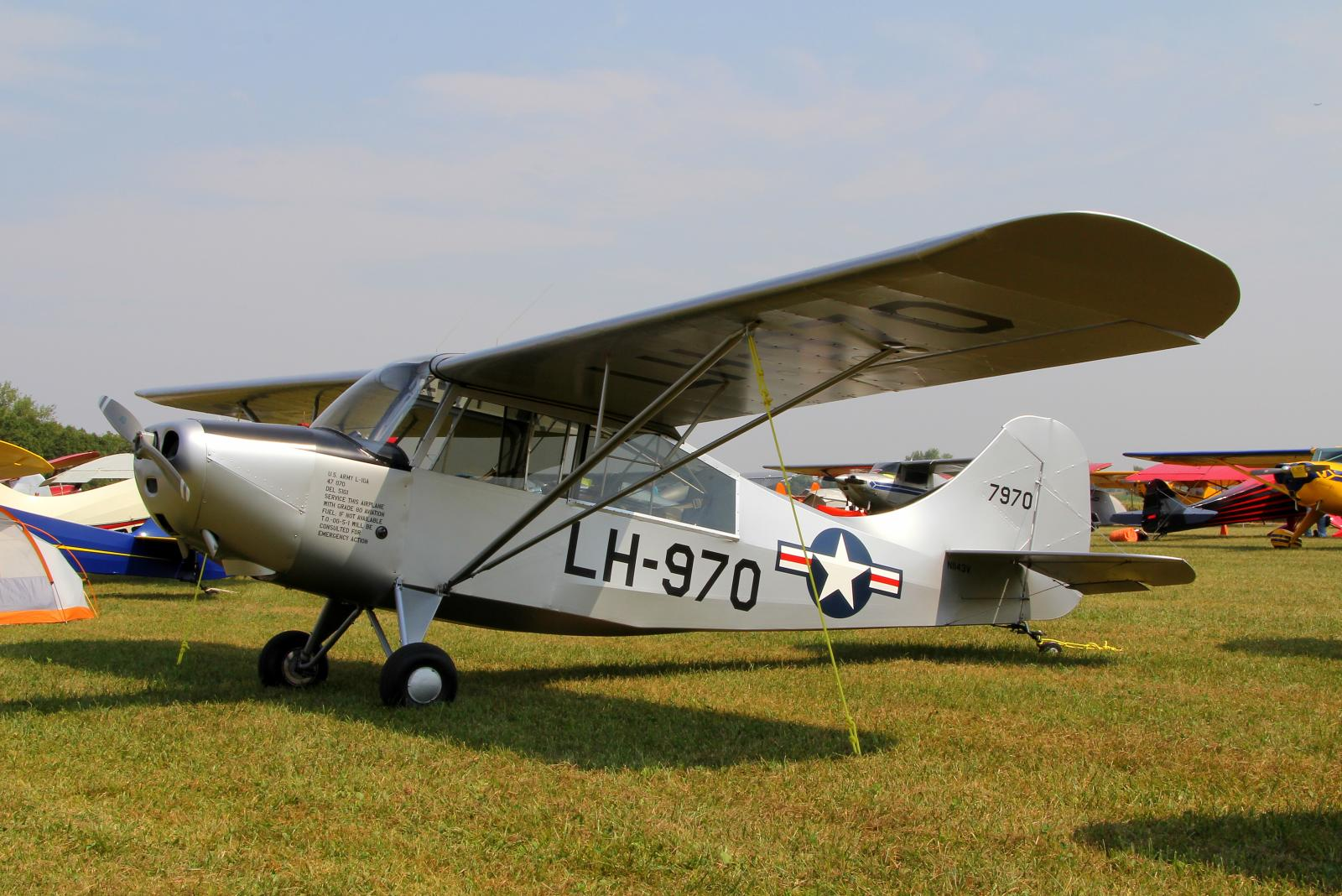 1947 Champion AERONCA 7BCM C/N 47970